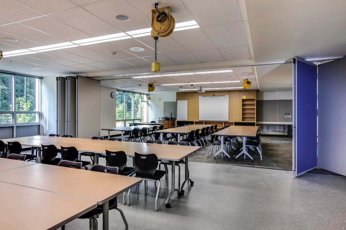 View of a classroom in STEM School